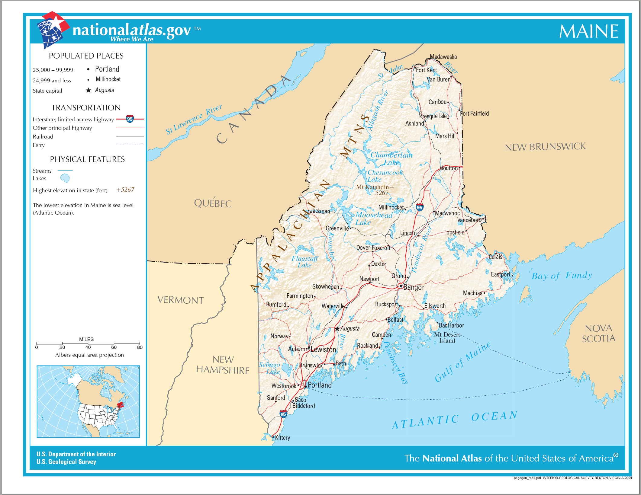 Map of Maine